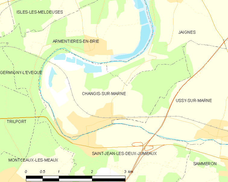 Map of French municipality Changis-sur-Marne